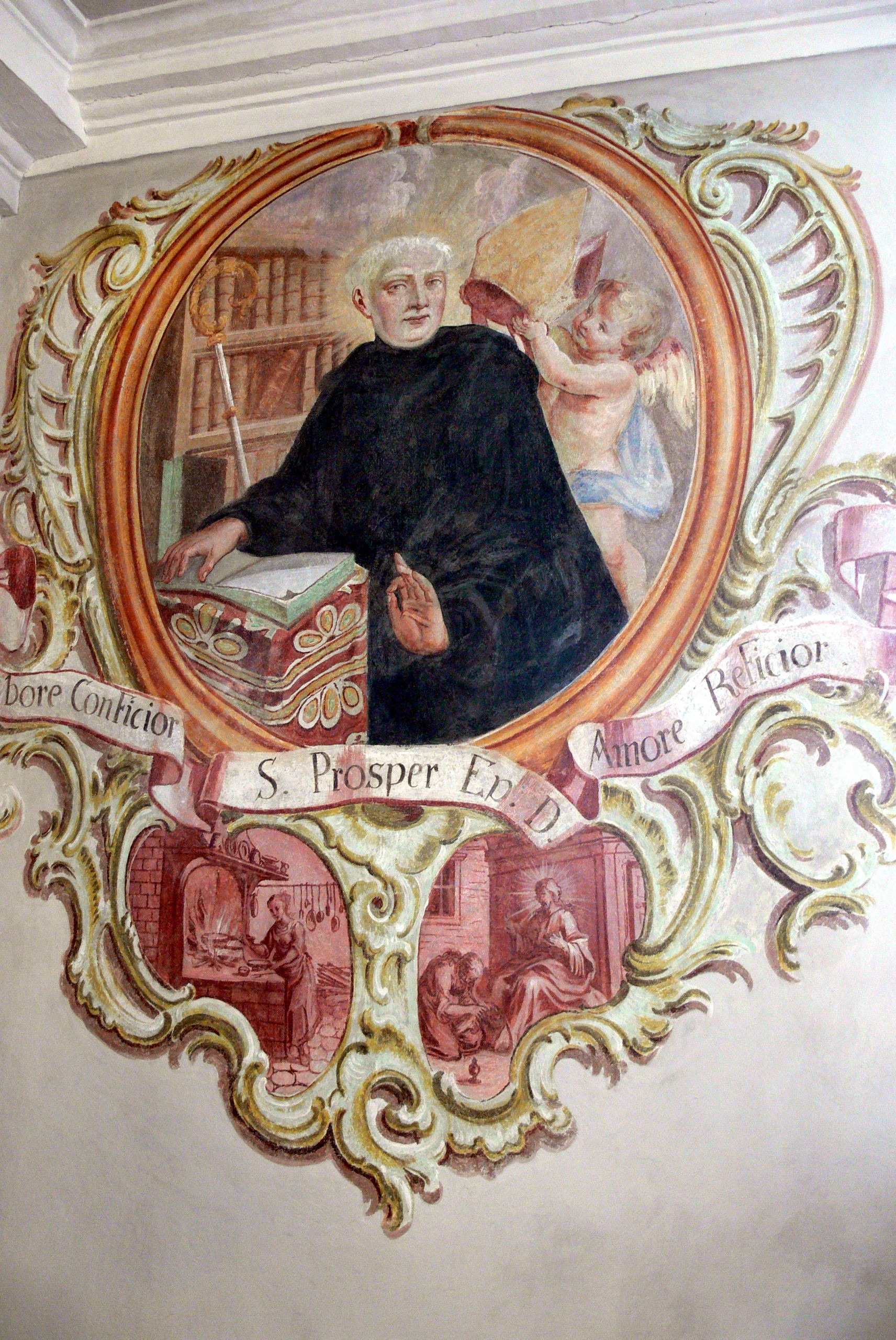 Rattenberg (Tyrol). Saint Augustine church - Fresco ( 18th century ) showing Saint Prosper of Reggio.